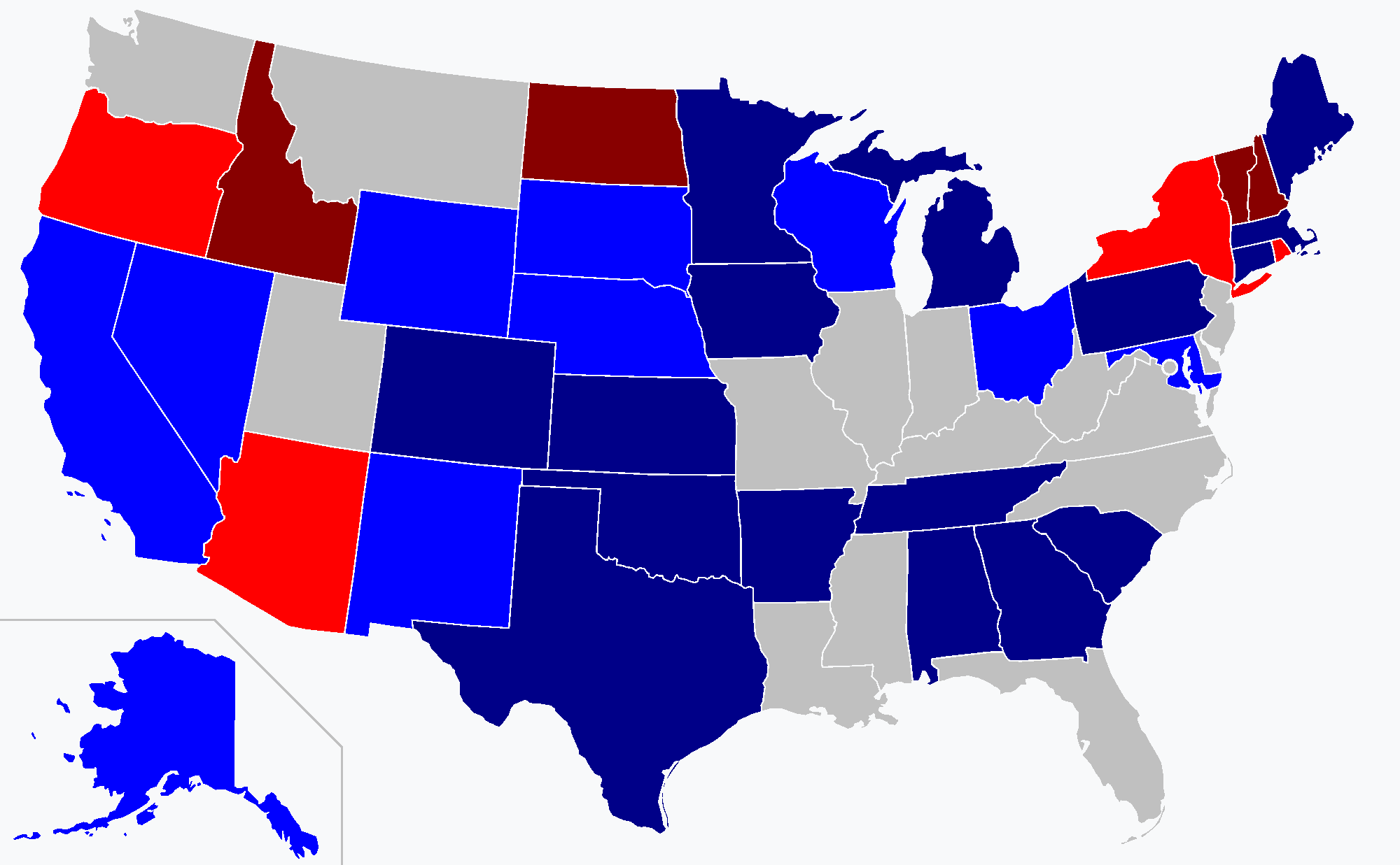 A map showing the results of the 1958 United States Gubernatorial elections